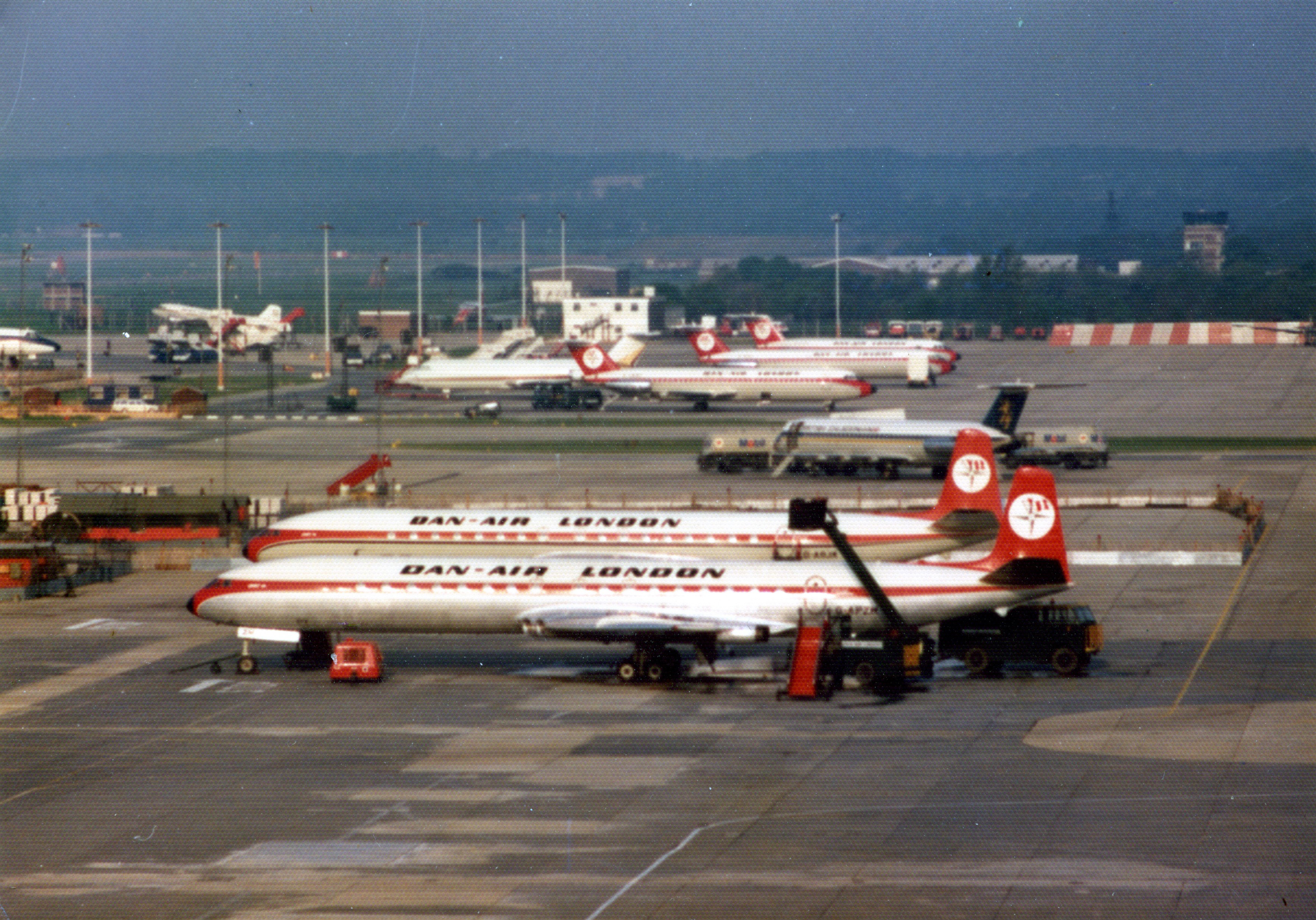 Gatwick Airport, England.